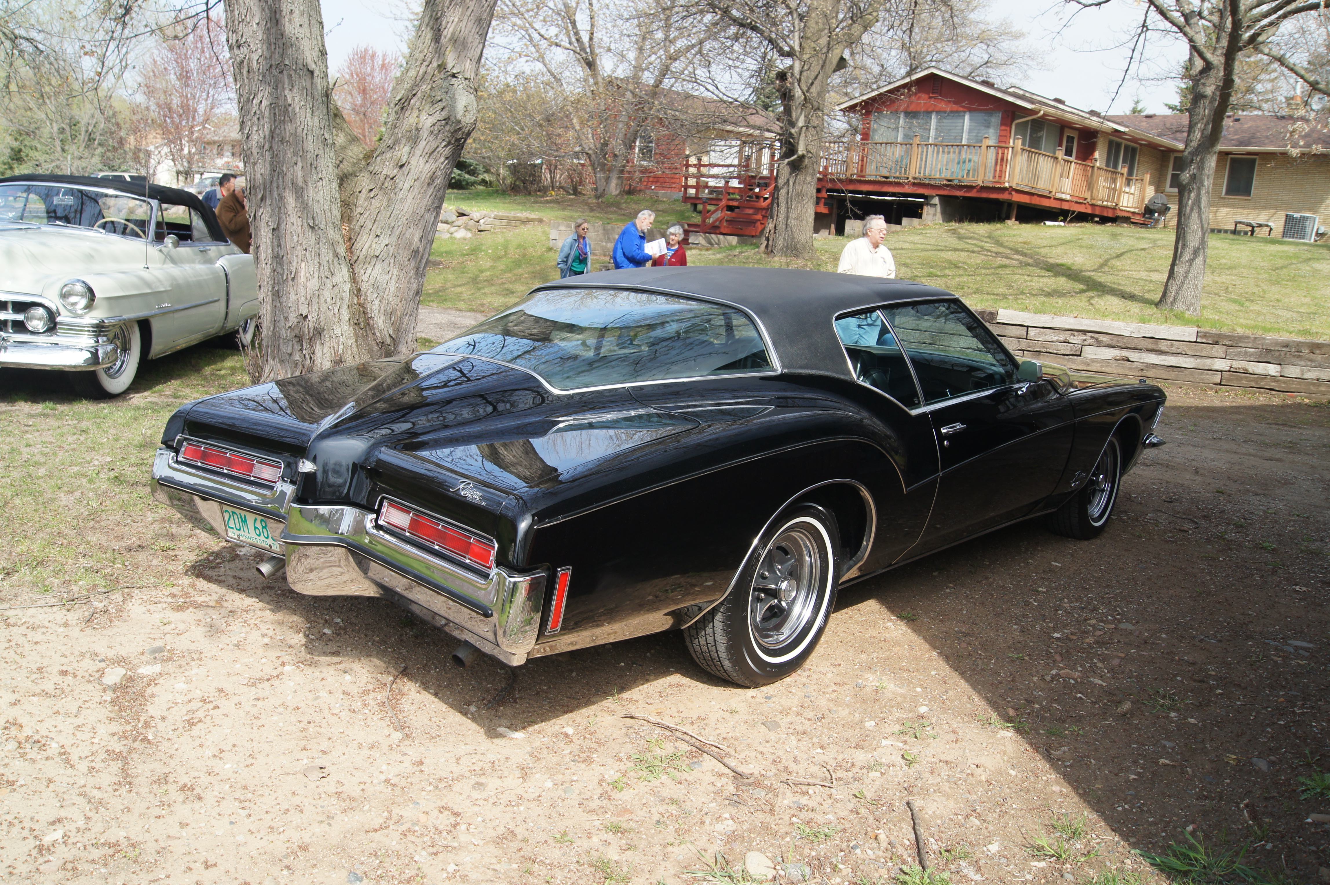 Classic Car Club of America Spring Garage Tour April 25, 2015 Click here for more car pictures at my Flickr site.